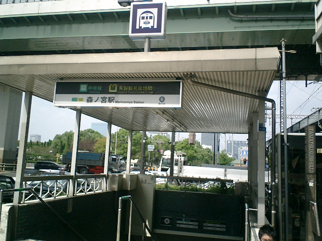 Osaka municipal subway, Morinomoya Station